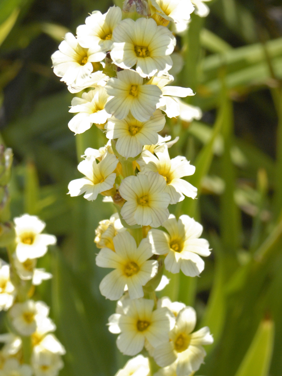 Sisyrinchium striatum at the Jardin des Plantes, Paris